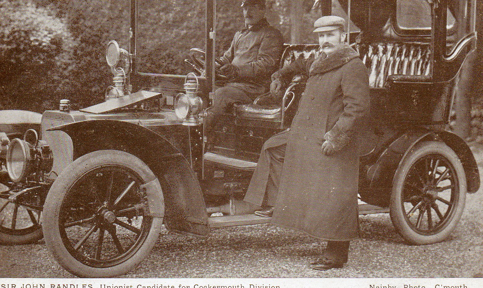 Sir John Randles: Unionist candidate for Cockermouth Division